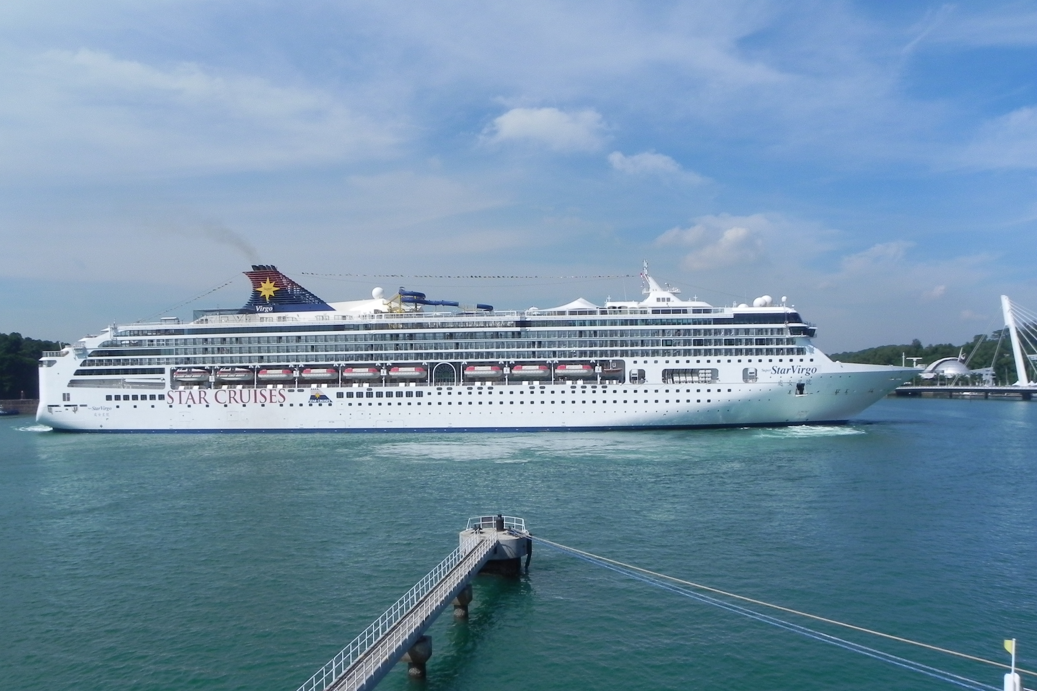 The SuperStar Virgo at the Singapore Cruise Centre.